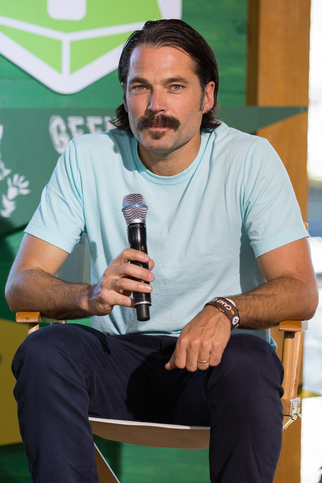 Tim Rozon at the Wynonna Earp discussion at Camp Conival in San Diego